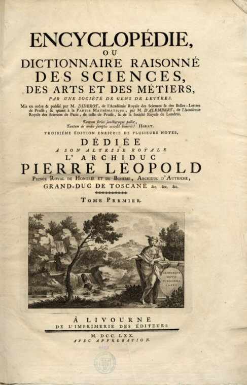 Cover of Encyclopédie